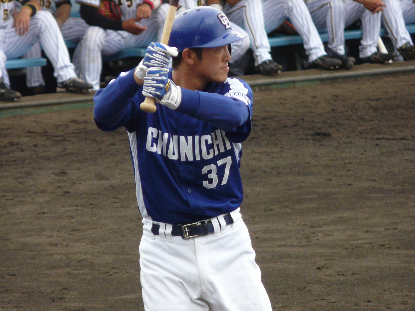 Copied from 画像:CD-Yoshio-Koyama.jpg: "小山良男"